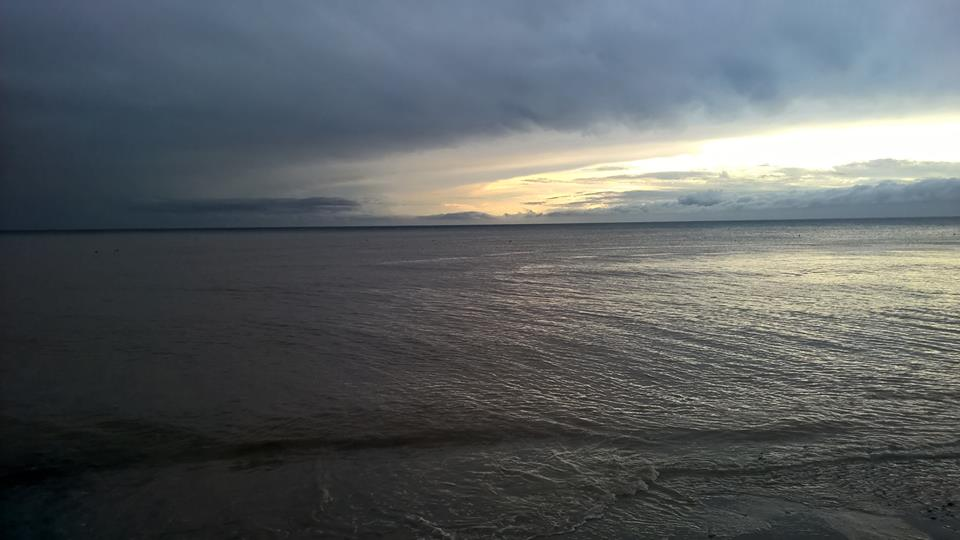 Beachfront of Mendi